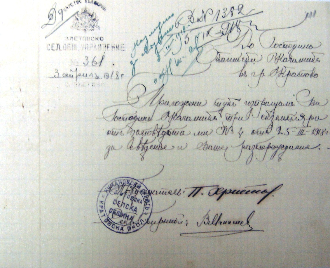 Document stamped by Zletovska rural municipality, April 3, 1918. This media file is produced by Wikipedian in Residence in Category:Wikipedian in Residence at DARM in 2016.